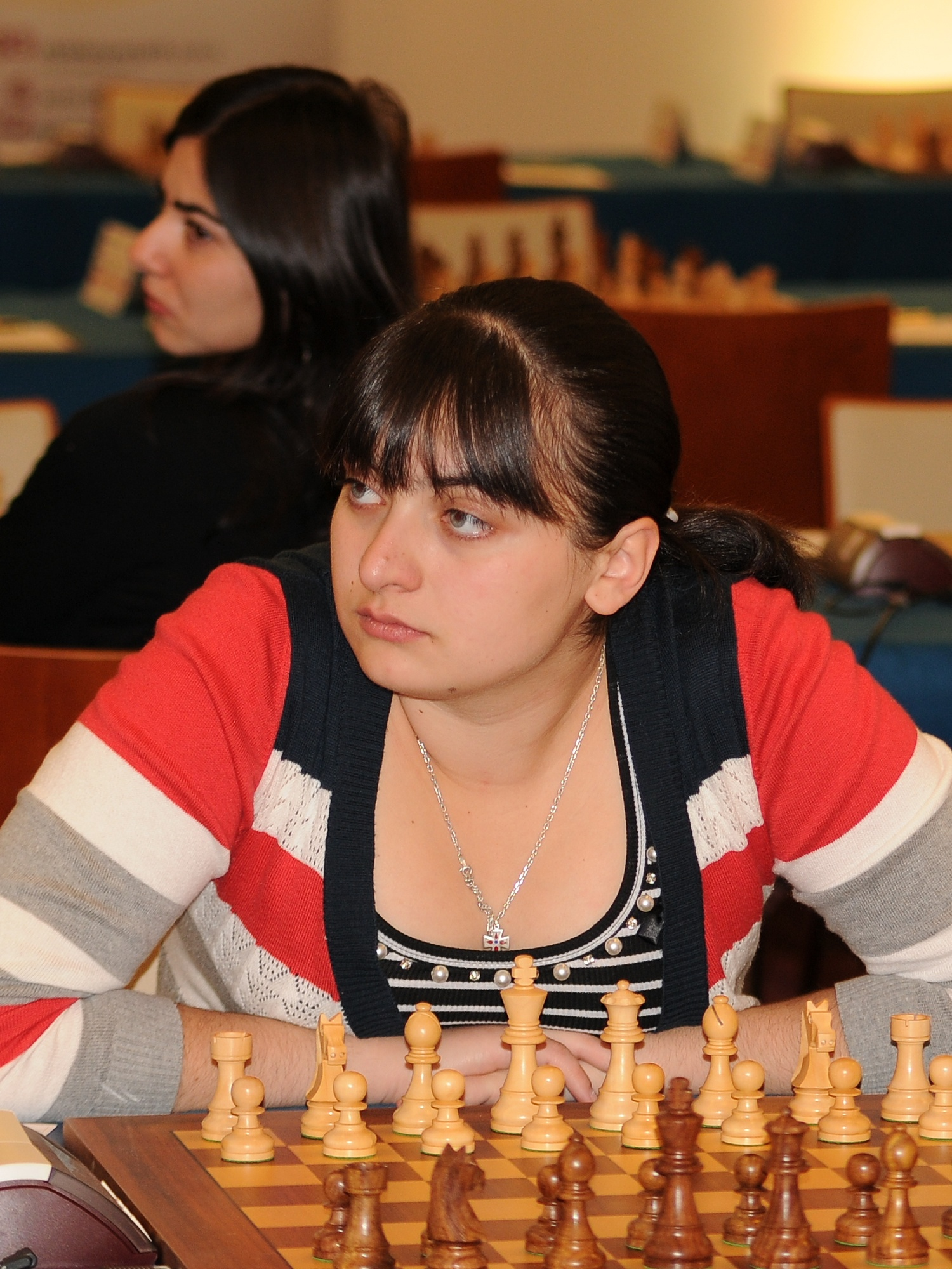 WGM Meri Arabidze, European Chess Team Championship Warsaw 2013